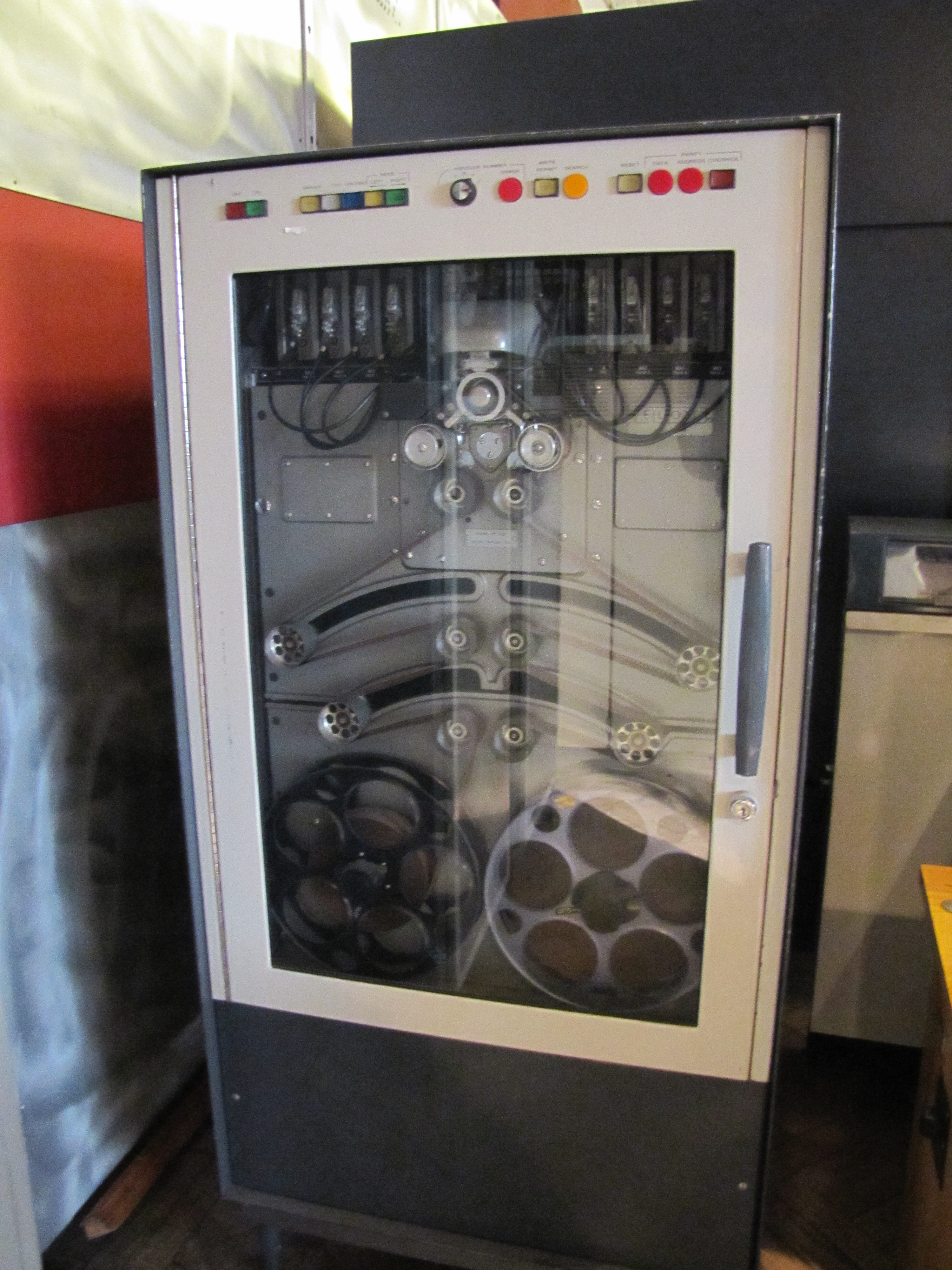 Photographic film as a perforated memory tape